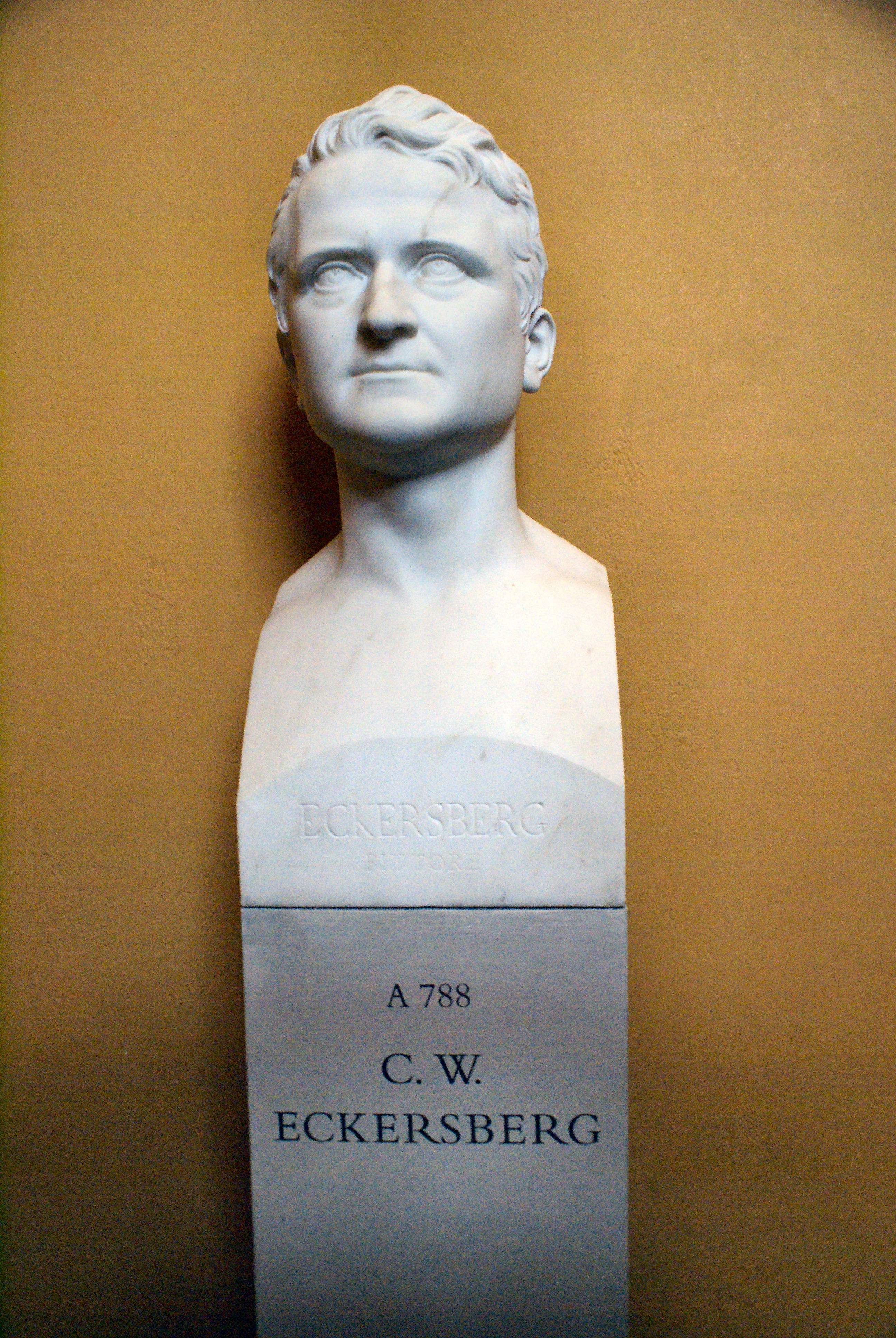 The danish painter C.W. Eckersberg, Bust by Bertel Thorvaldsen, Thorvaldsens Museum